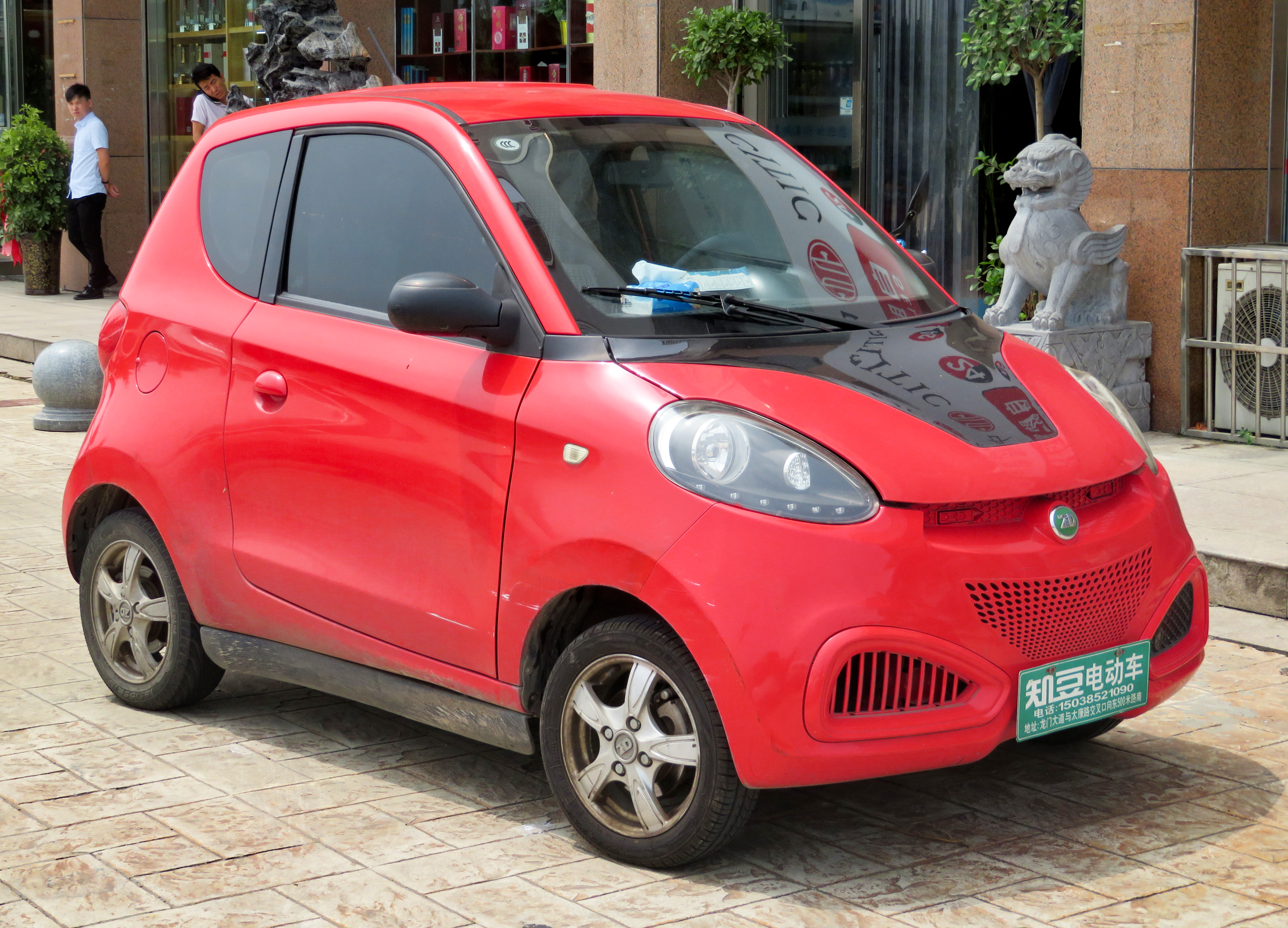 A 2016 Geely-Zhidou D1 photographed in Luolong District, Luoyang, Henan province, China